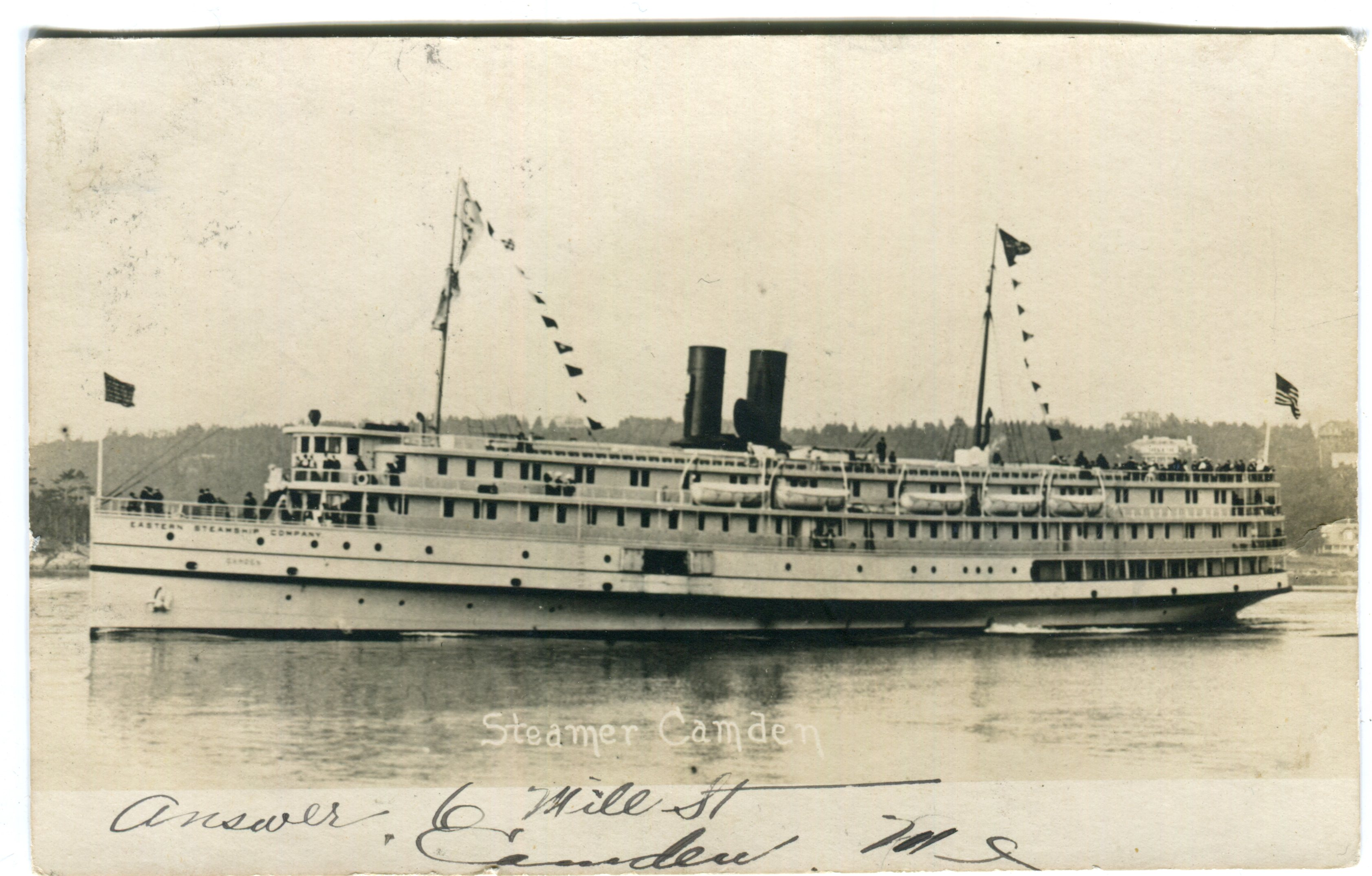 A real-photo postcard showing the steamer S.S. Camden near a harbor. Passengers are visible on the decks of the ship. A large house can be seen among the trees in the background, with other buildings toward the right. Built in 1907 at Bath Iron Works in Bath, Maine, the Camden was one of the steamships which ran the line from Boston to Bangor for the Eastern Steamship Lines. The Camden was rebuilt for transport during World War II, serving the Hawaiian islands. Sold to Asia Development Corp of Shanghai April 30. 1948. Other names: Comet, Wansu (Chinese) Sister ship: Belfast Built at Bath Iron Works, 1907 Length: 320.5 Breadth: 40.0 Draught: 16.1 Gross tonnage: 2153.0 Speed: 18 knots